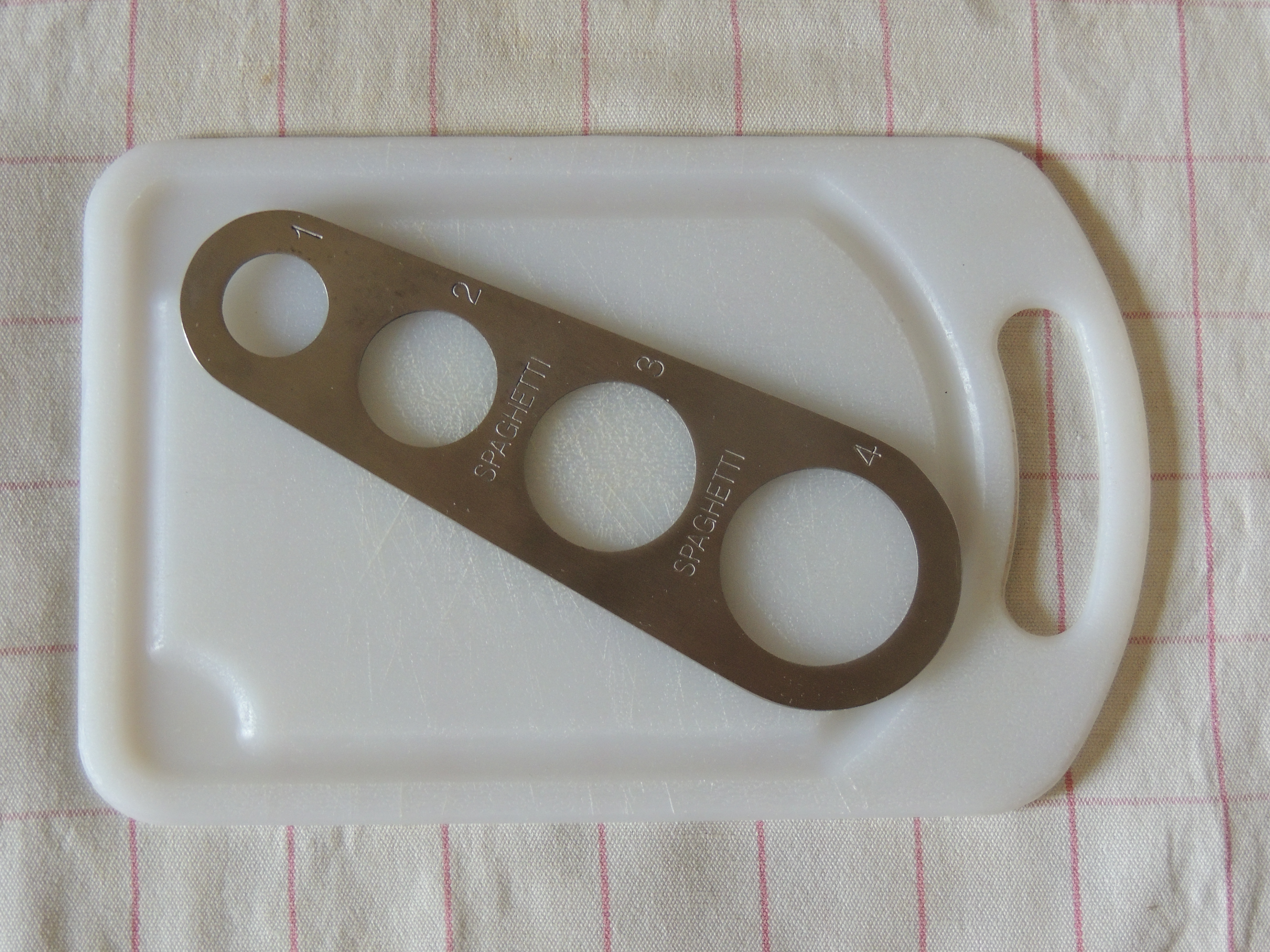 Spaghetti mesurer with holes of 23, 30, 37 and 43 mm